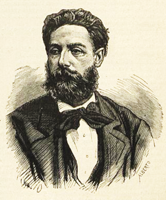 Augusto Saraiva de Carvalho (1839 — 1882), a Portuguese jurist, lawyer and politician.